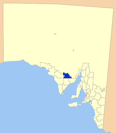 Modification of Astrokey44's original map found here: File:SA_LGA_blank.png Position of Kimba LGA